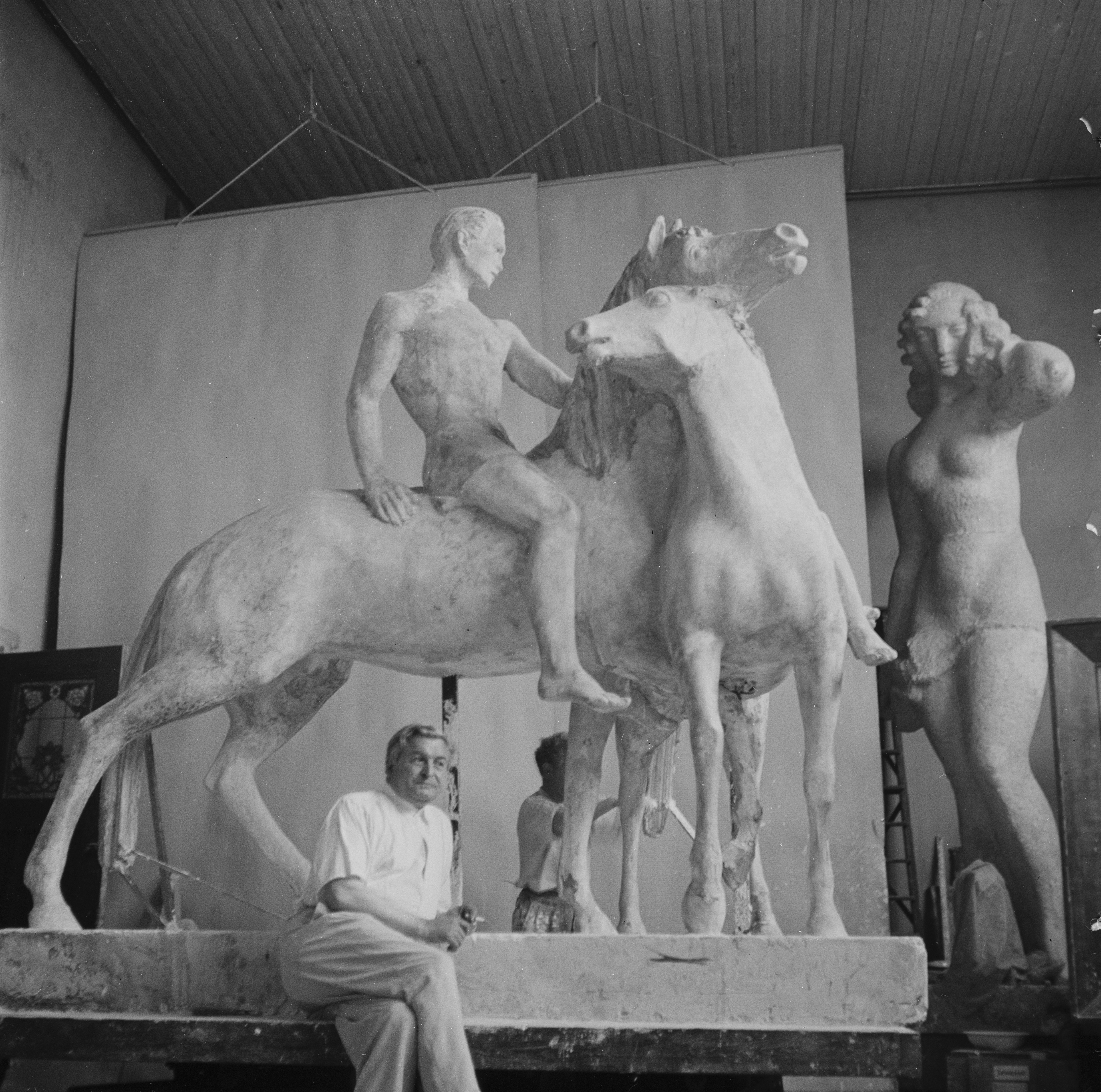 1941 . Helsingin Olympialaiset 1952. XV Olympia-taidenäyttely Taidehallissa. Kuvanveistäjä Wäinö Aaltonen ja patsas Kun ystävyys solmitaan (kipsiluonnos 1941).